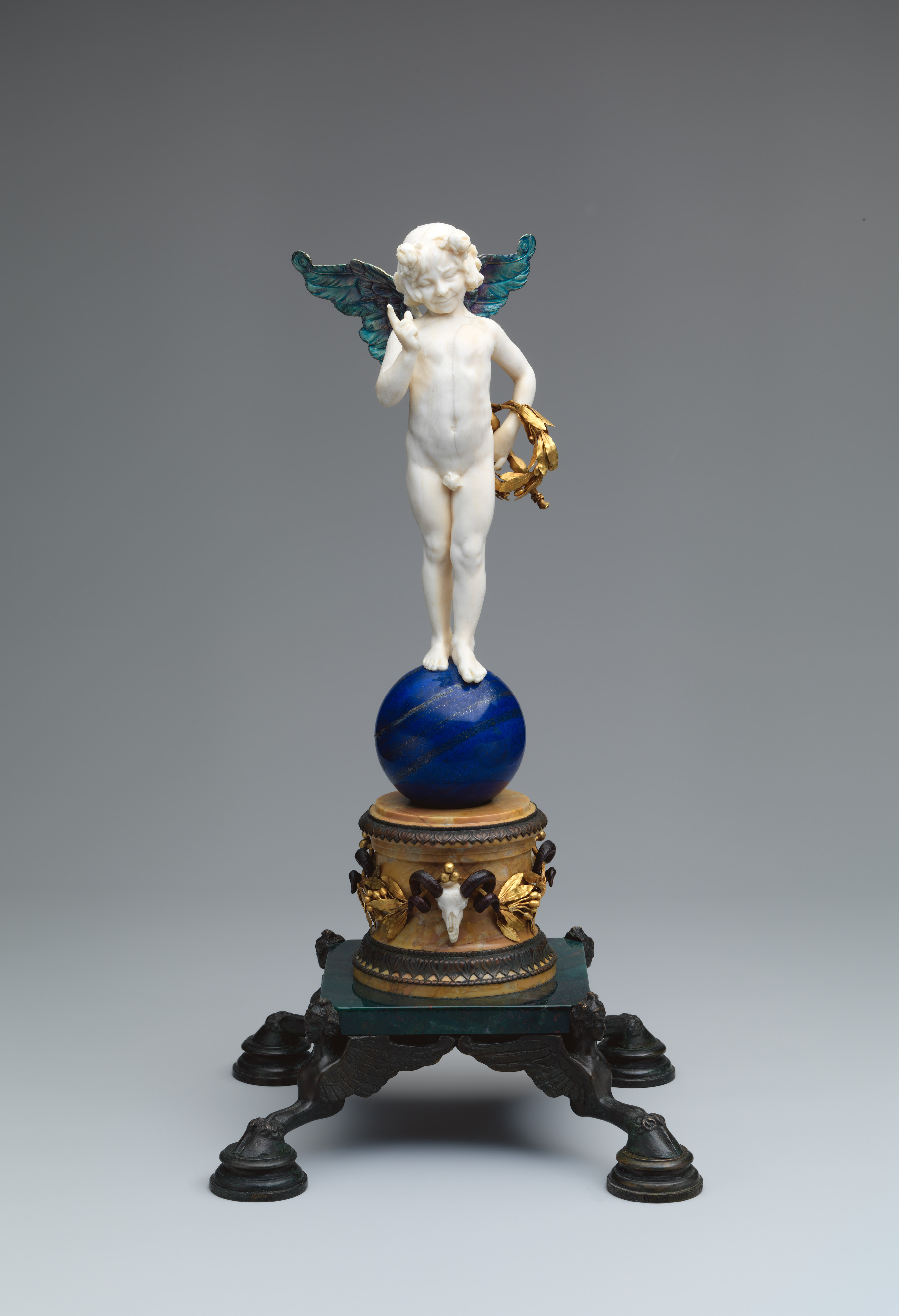 Cupid Artist: Frederick William MacMonnies (American, New York 1863–1937 New York) Date: 1898 Medium: Ivory, lapis lazuli, marble, bloodstone, bronze, silver alloy, gold, translucent enamels, wood Dimensions: 16 1/8 in. height (41 cm) x 8 3/8 in. width (21.3 cm.) x 8 1/4 in. depth (21 cm.) Classification: Sculpture Credit Line: Purchase, Heather and Brian McVeigh and David Schwartz Foundation Inc. Gifts, 2015 Along with a number of French contemporaries, Paris-based MacMonnies participated in a late-nineteenth-century revival of interest in polychromy and mixed materials for sculpture. This unique multi-material object features an intricate play of diverse media: a fanciful carved ivory cupid with enameled silver wings surmounts an elaborate base incorporating colored stones, gold, bronze, and wood. MacMonnies derived the composition from his earlier bronze statuette "Standing Cupid" (1895), drawing on Greco-Roman-inspired subject matter, a central theme in his oeuvre from the late 1880s through the 1890s. "Cupid" was designed with the expert input of several French artists, including sculptor Victor Janvier and enameler Fernand Thesmar.